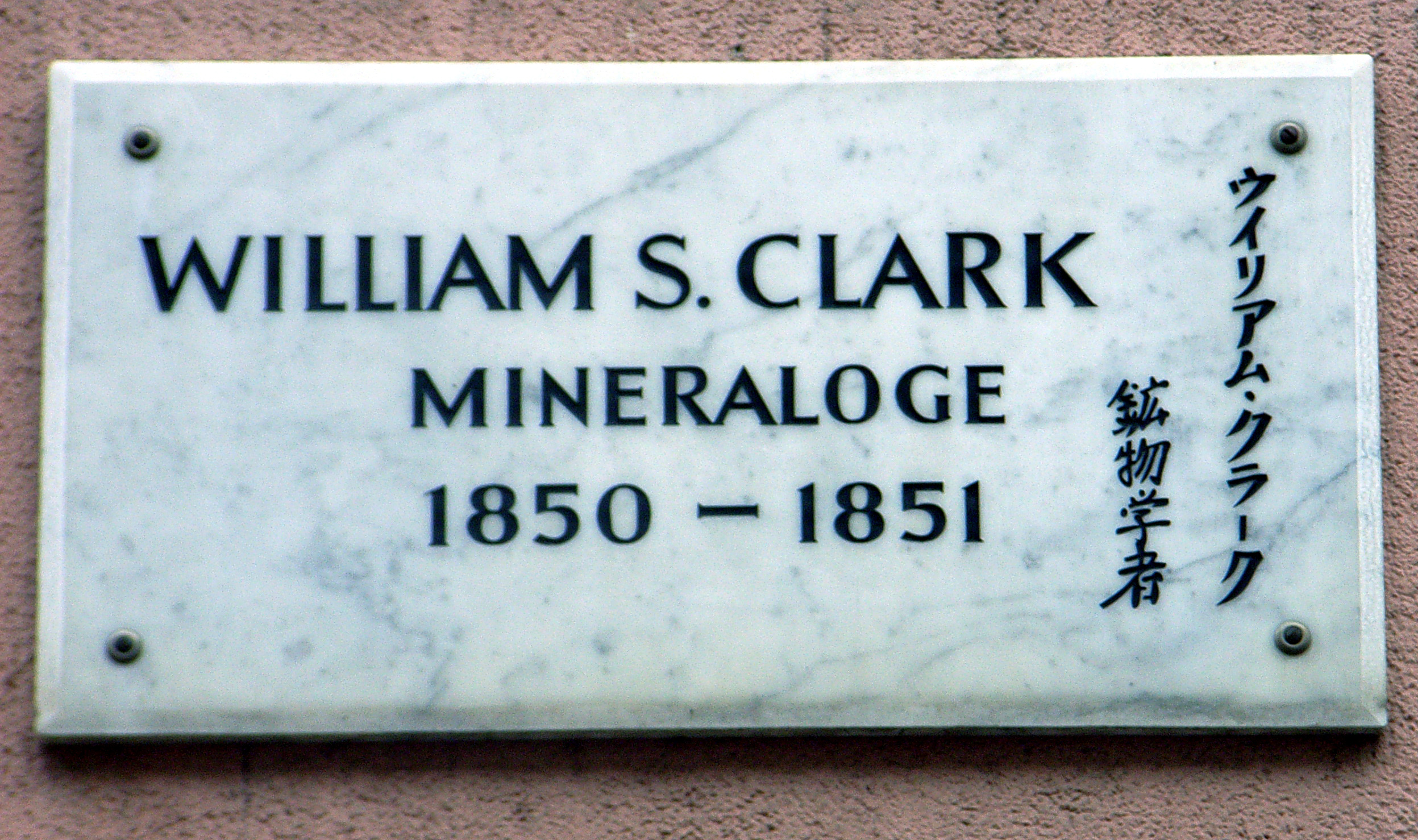 This image shows a informationsign in Göttigen.